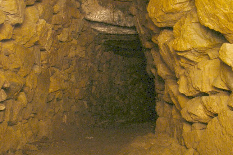 The main, curved, chamber of the Halligye Fogou at the Trelowarren Estate, Cornwall. Photo taken with a long exposure and illuminated by a moving torch beam.